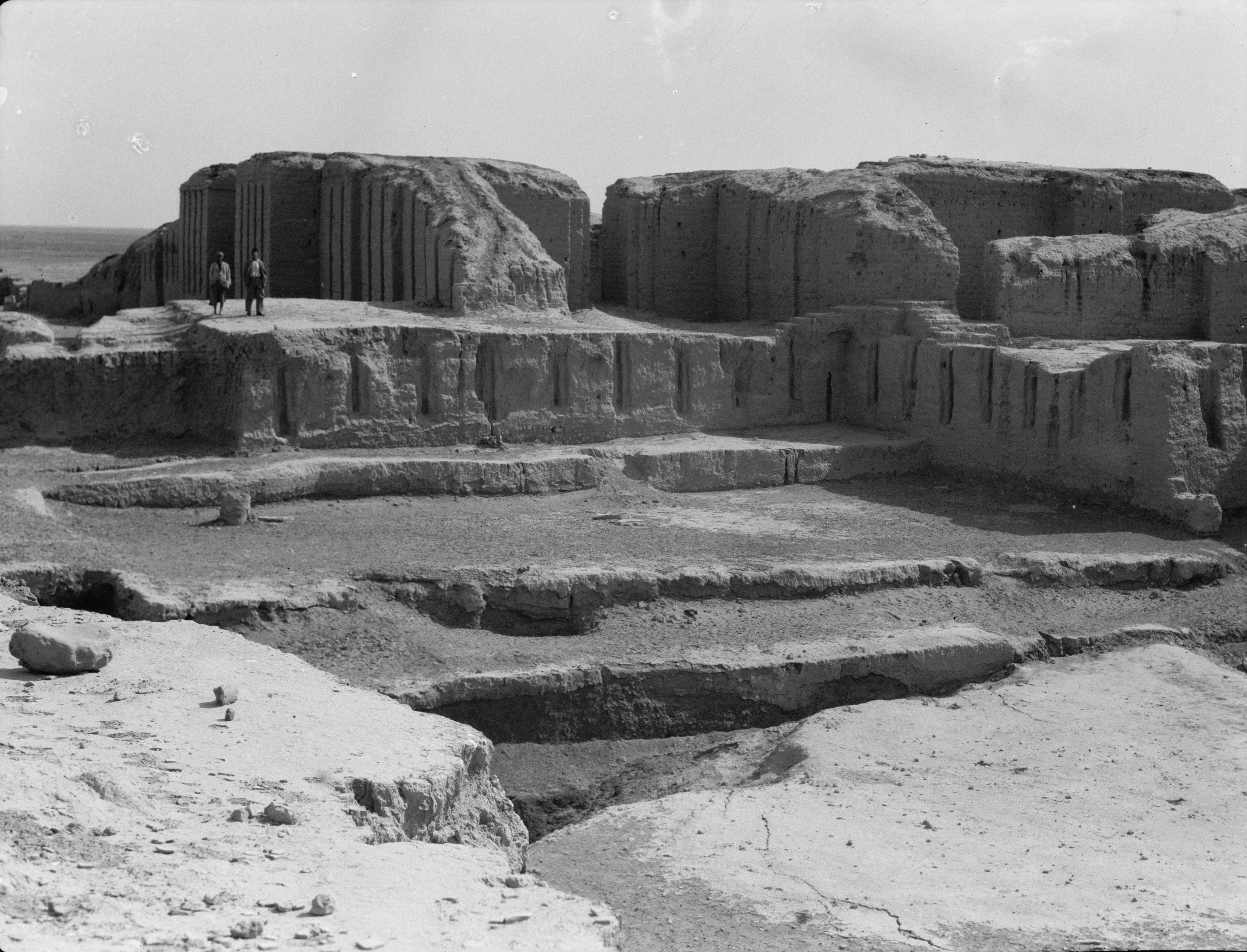 Title: Iraq. Kish. (Tel-Uhaimir). The ruling city immediately after the deluge. The ancient ruins showing extensive remains Abstract/medium: G. Eric and Edith Matson Photograph Collection Physical description: 1 negative